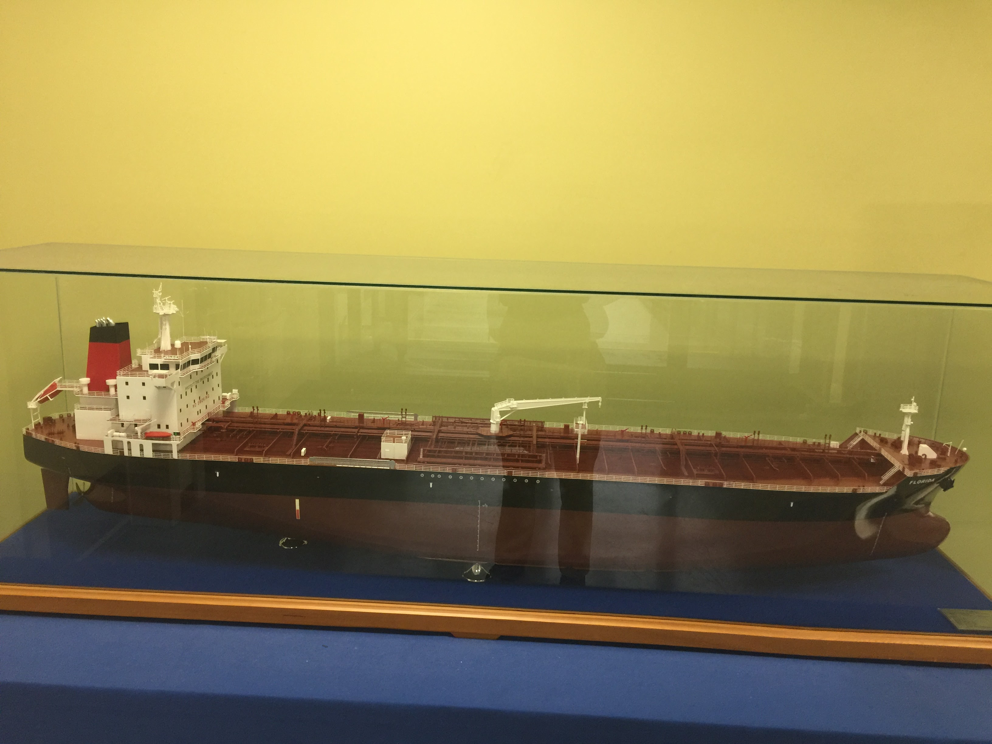 1/100 scale model of tanker ship Florida